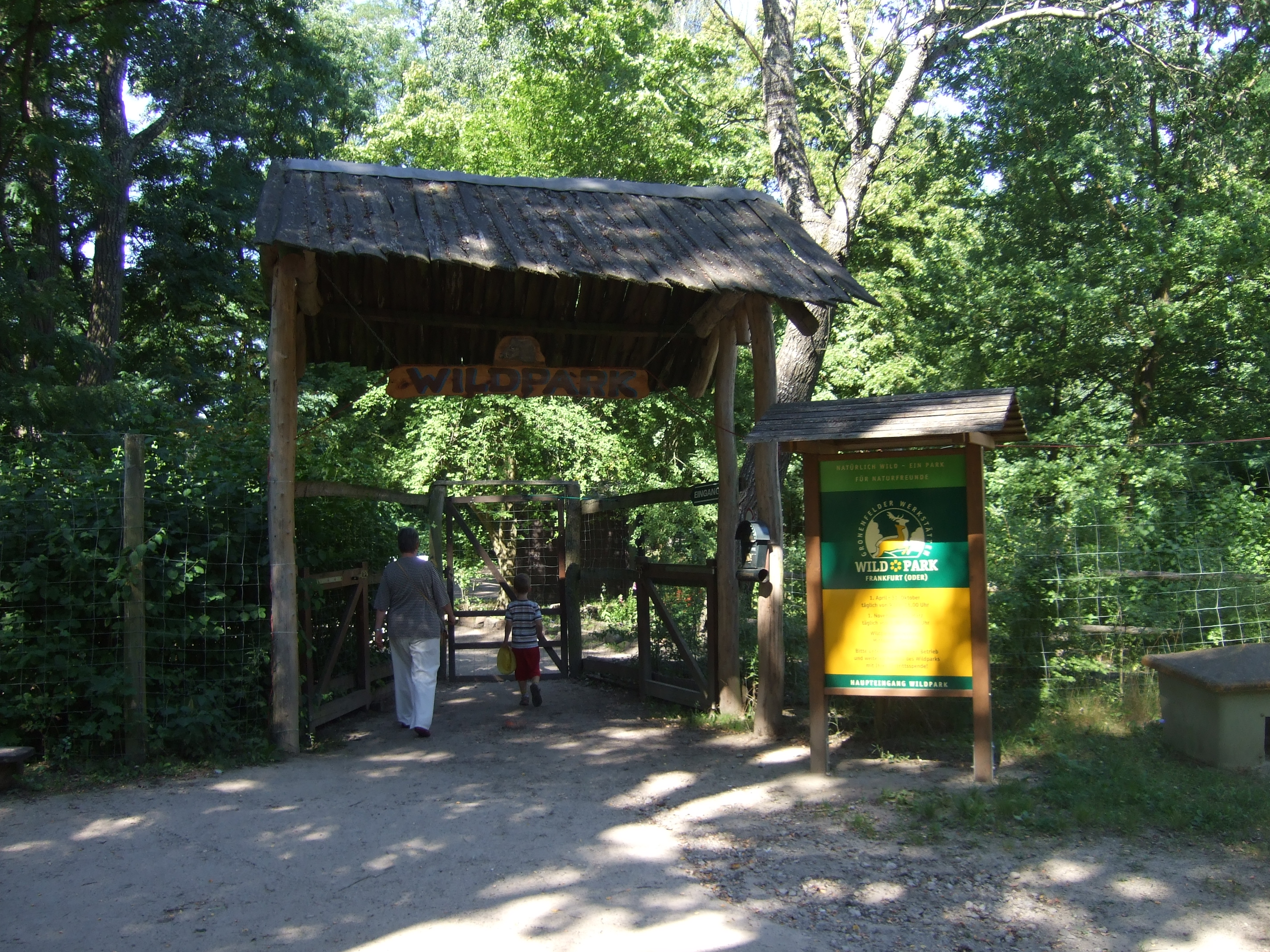 Zoo "Wildpark Frankfurt (Oder)" in Frankfurt (Oder), Germany. Entrance.